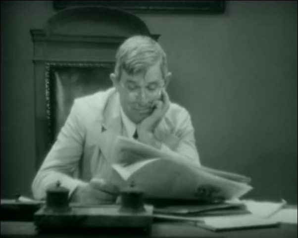 American actor Will Rogers in the film Judge Priest